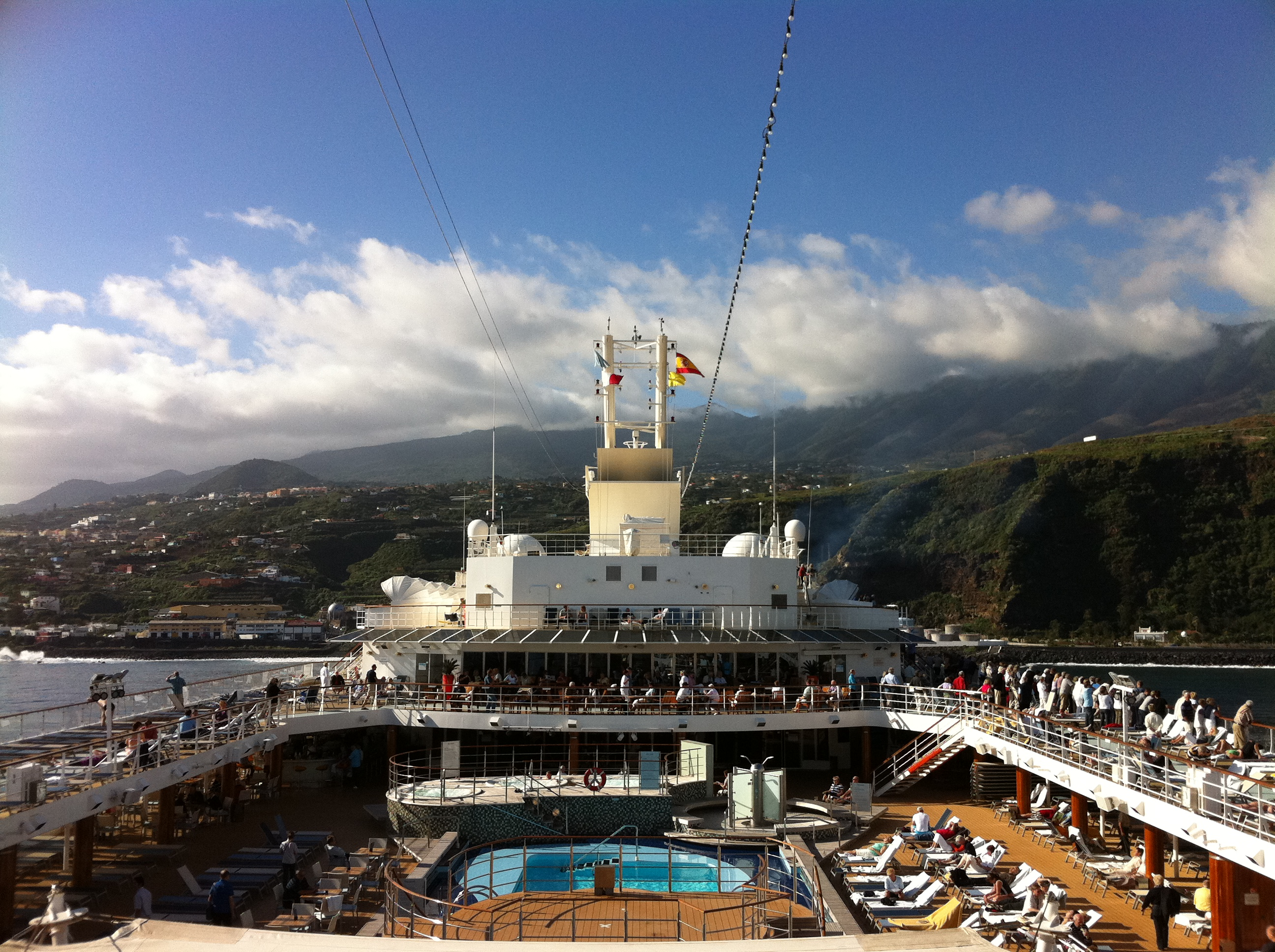 Spain, Canary Islands, La Palma: Cruise ship "Mein Schiff 1" in front of the entrance to the port of Santa Cruz, pool- (sun-) and viewing deck